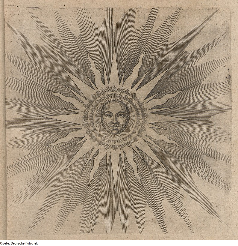 Original image description from the Deutsche Fotothek Theosophie & Philosophie & Judentum & Kabbala & Sonne